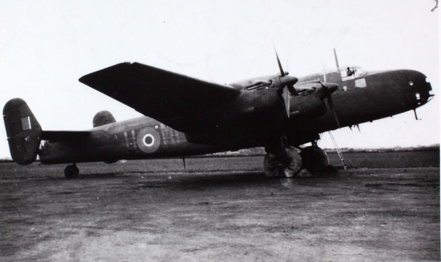 Image from the Charles Daniels Photo Collection album "British Aircraft." SOURCE INSTITUTION: San Diego Air and Space Museum Archive